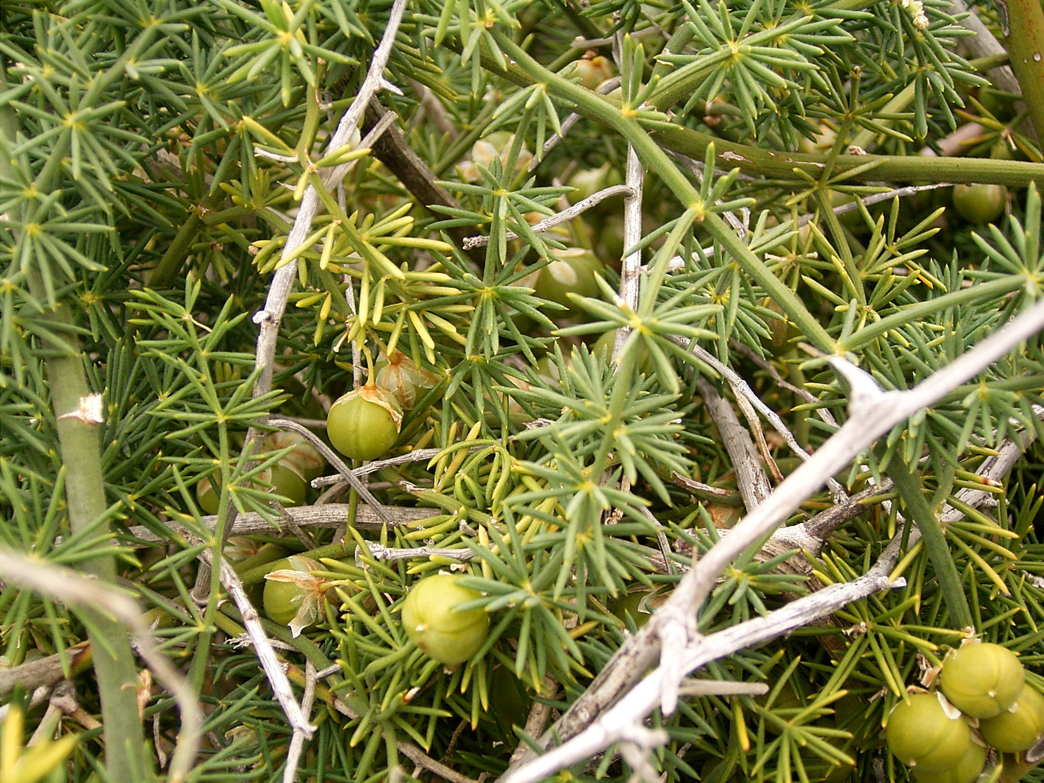 Asparagus umbellatus growing in La Fajana, Barlovento, La Palma, Canary Islands